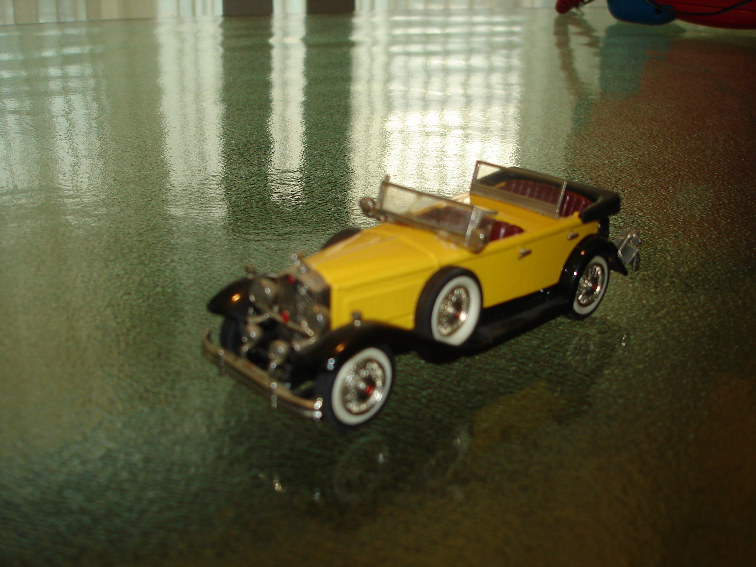 Collector's model of a 1932 Packard Twelve Dietrich Dual Cowl Phaeton in white metal, painted yellow and black. Made by Western Models. Scale 1/43